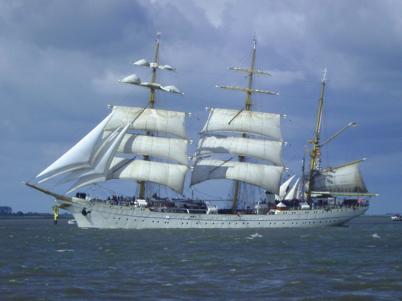 The sailing vessel Gorch Fock of the German navy on the River Weser in front of Bremerhaven